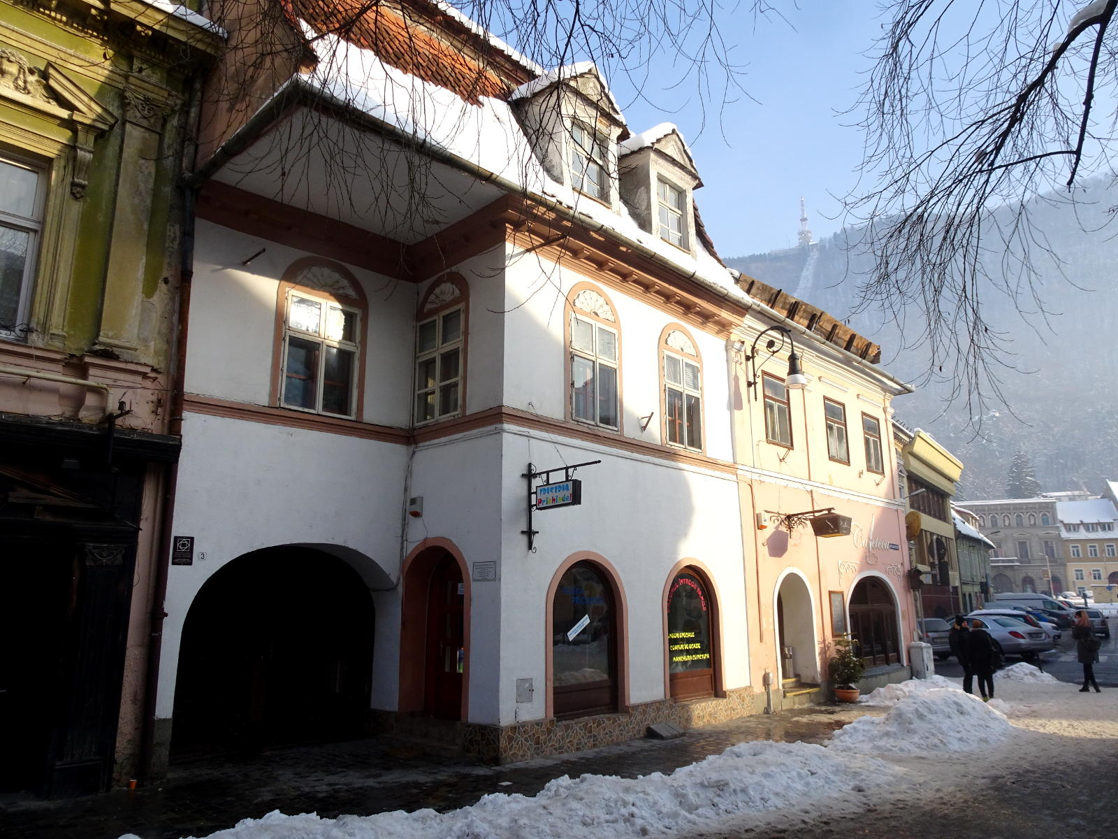 Apollonia Hirscher street, Brasov; house number 3